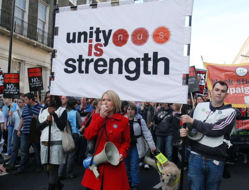 Gemma Tumelty leading the National Demo October 2006